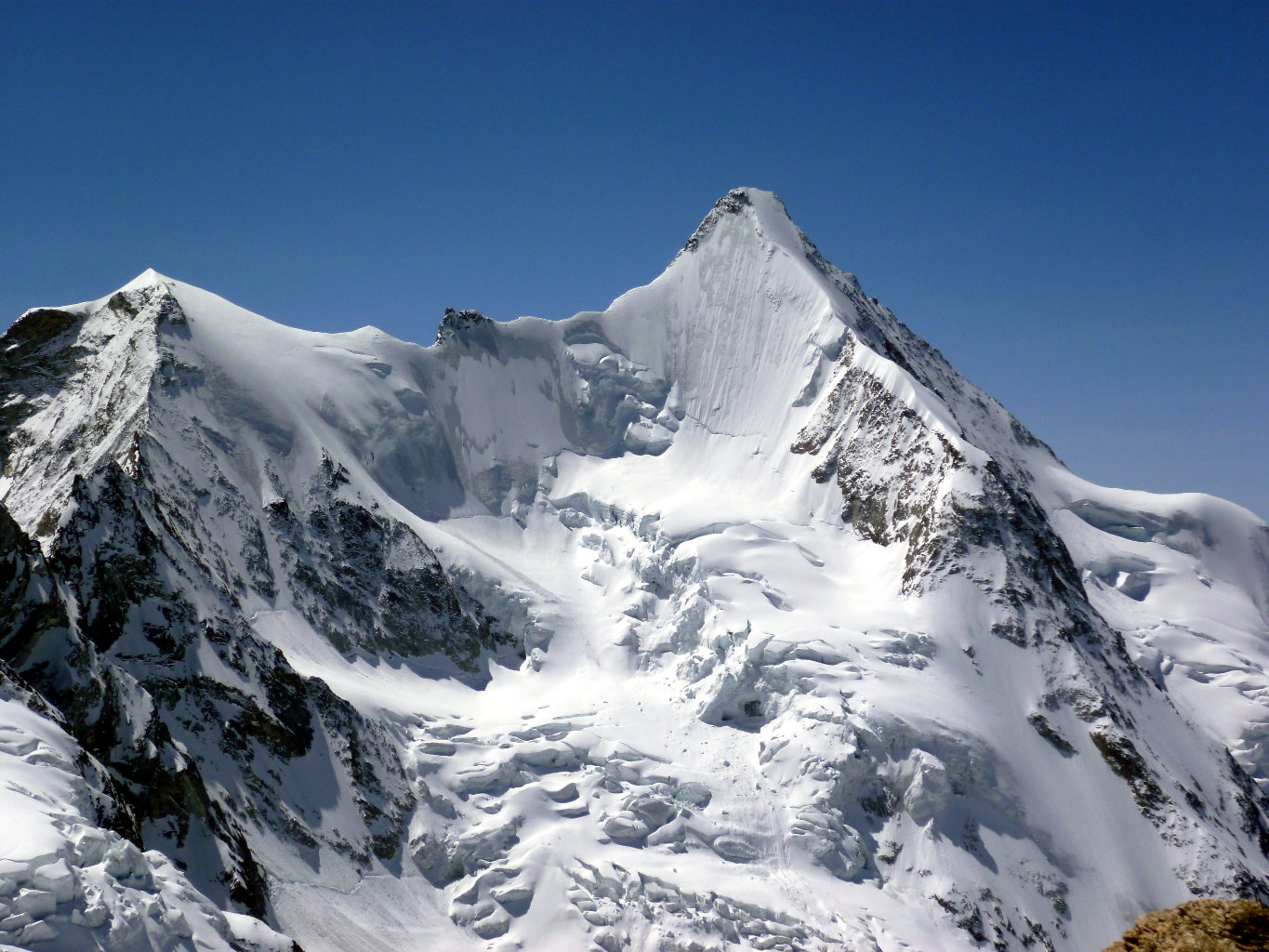 Ober Gabelhorn